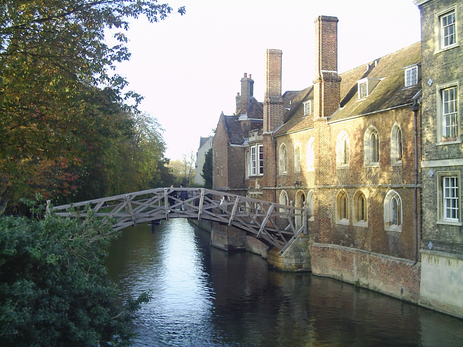 Mathematical Bridge from Silver Street.